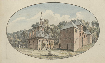 Bach-y-Graig, Tremeirchion